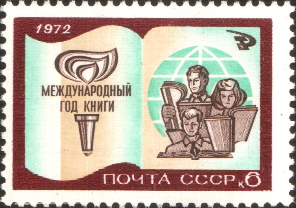 USSR stamp